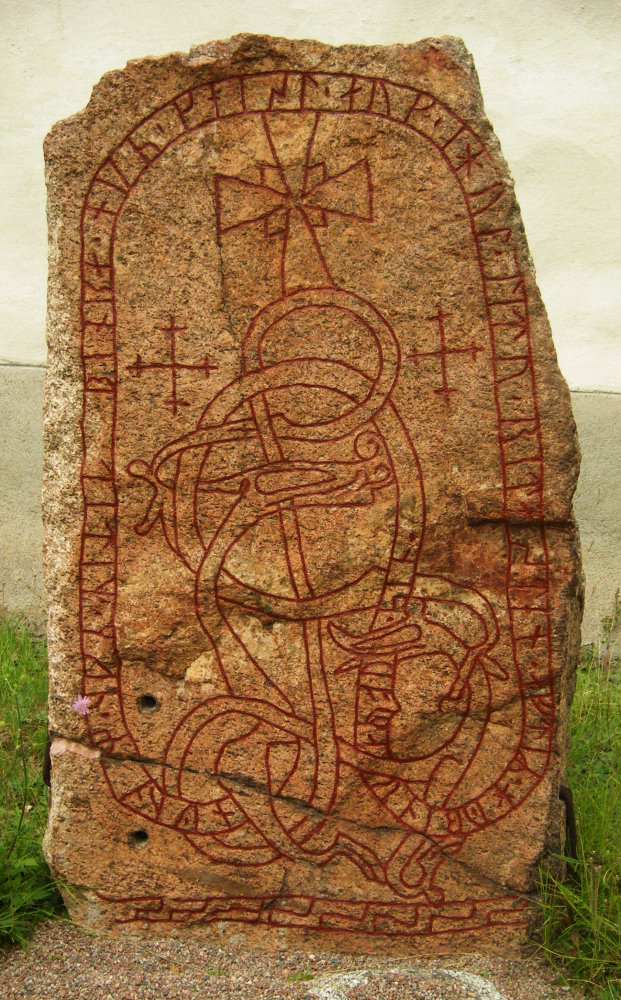 runic stone Upplands runinskrifter U1047